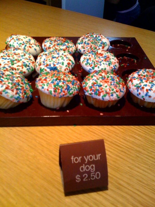 Pupcakes (dog-food cupcakes) from Sprinkles Cupcakes, Beverly Hills